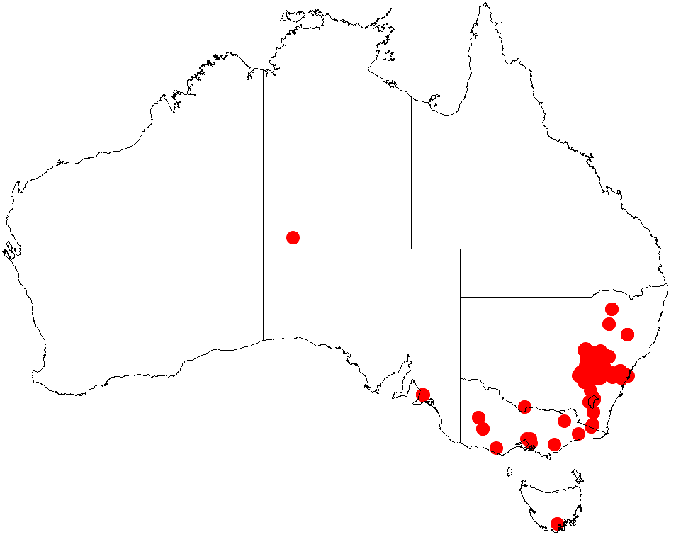 Acacia vestita occurrence data from Australasia Virtual Herbarium downloaded from on 8 December 2018